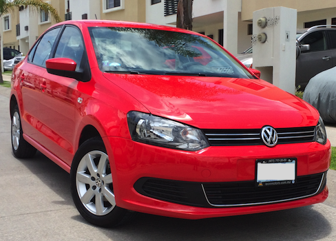 Vw vento, polo sedan. 2014 Model.